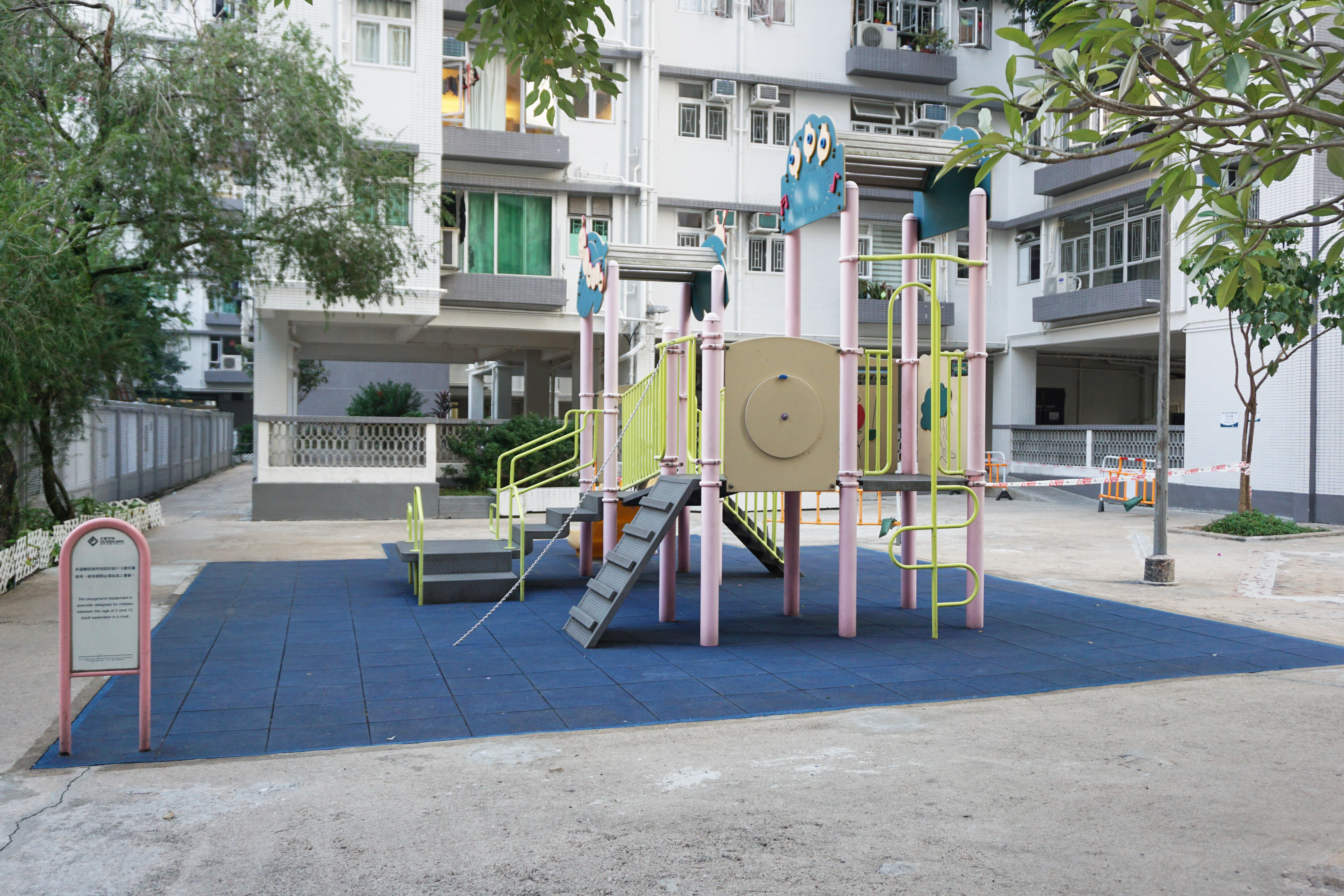 Chun Man Court in Ho Man Tin, Hong Kong.